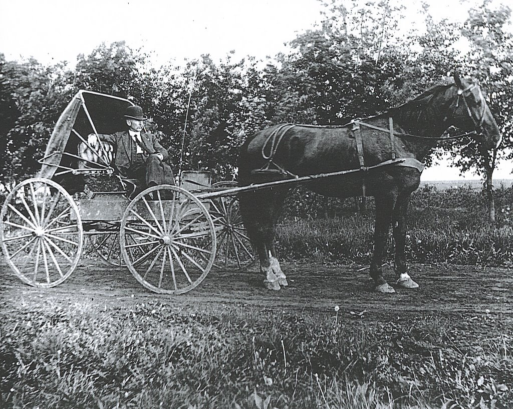 A photograph of American frontier doctor Charles Boarman Harris (1857–1942) on a horse and buggy in Pembina, North Dakota. The image was originally published in North Dakota History & People, Vol. III (1917) by Clement A. Lounsberry.